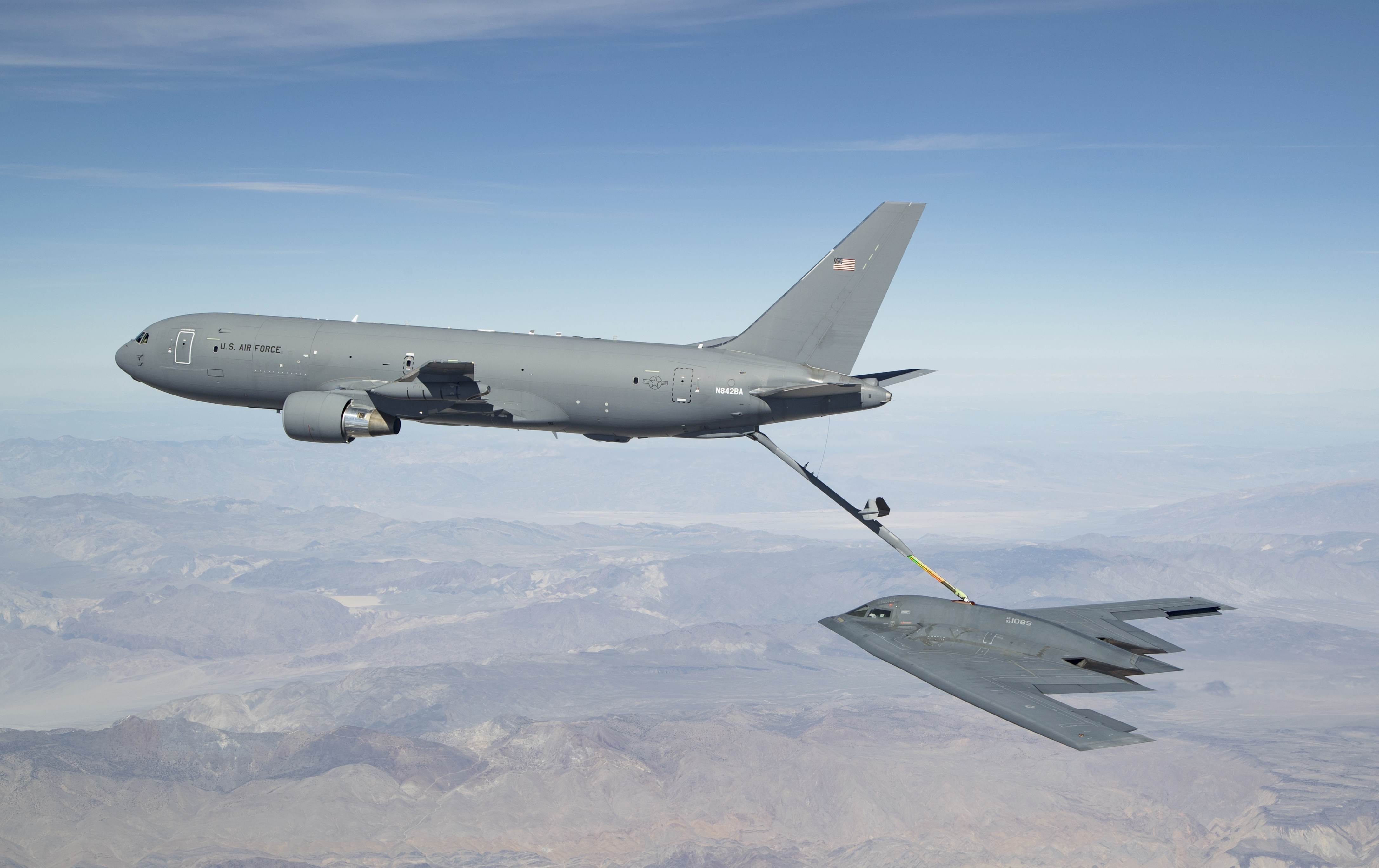 EDWARDS AIR FORCE BASE, Calif. --KC-46 refuels the B-2 for the first time during developmental flight test over Edwards AFB and the Sierra Nevada Mountains on Apr. 23, 2019. (U.S. Air Force photo by Christian Turner)